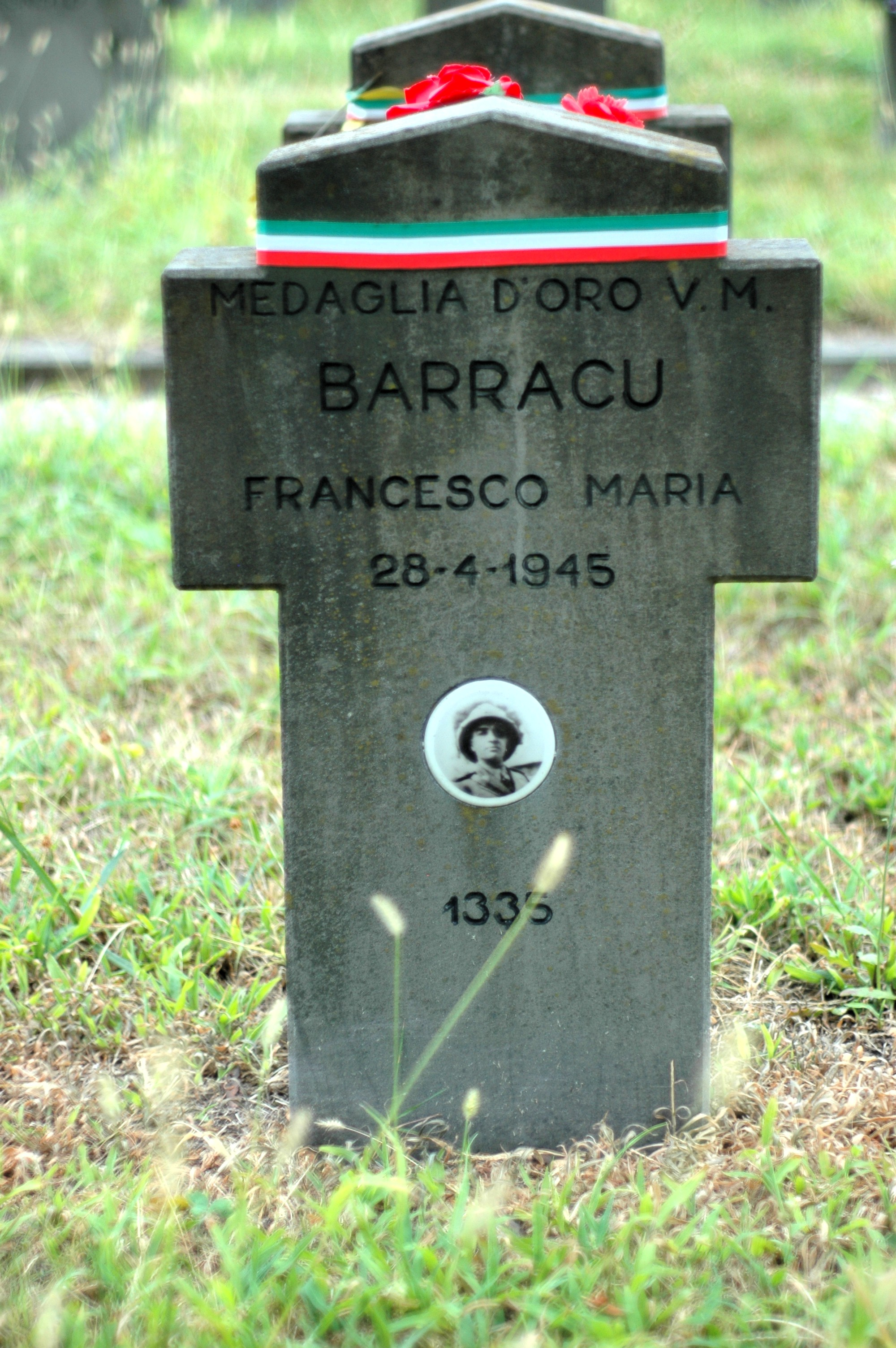 Grave of Francesco Maria Barracu in the Campo X of Cimitero Maggiore of Milan